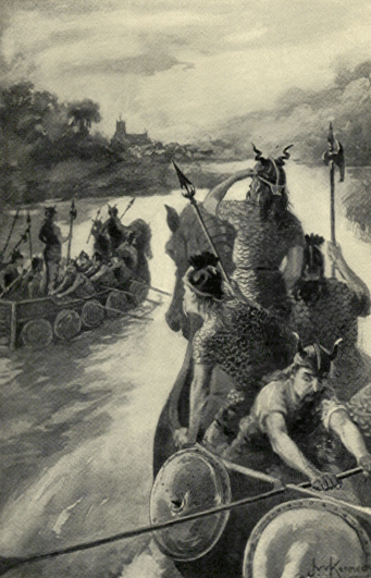 Danish Vikings about to plunder Winchester in the 9th century.